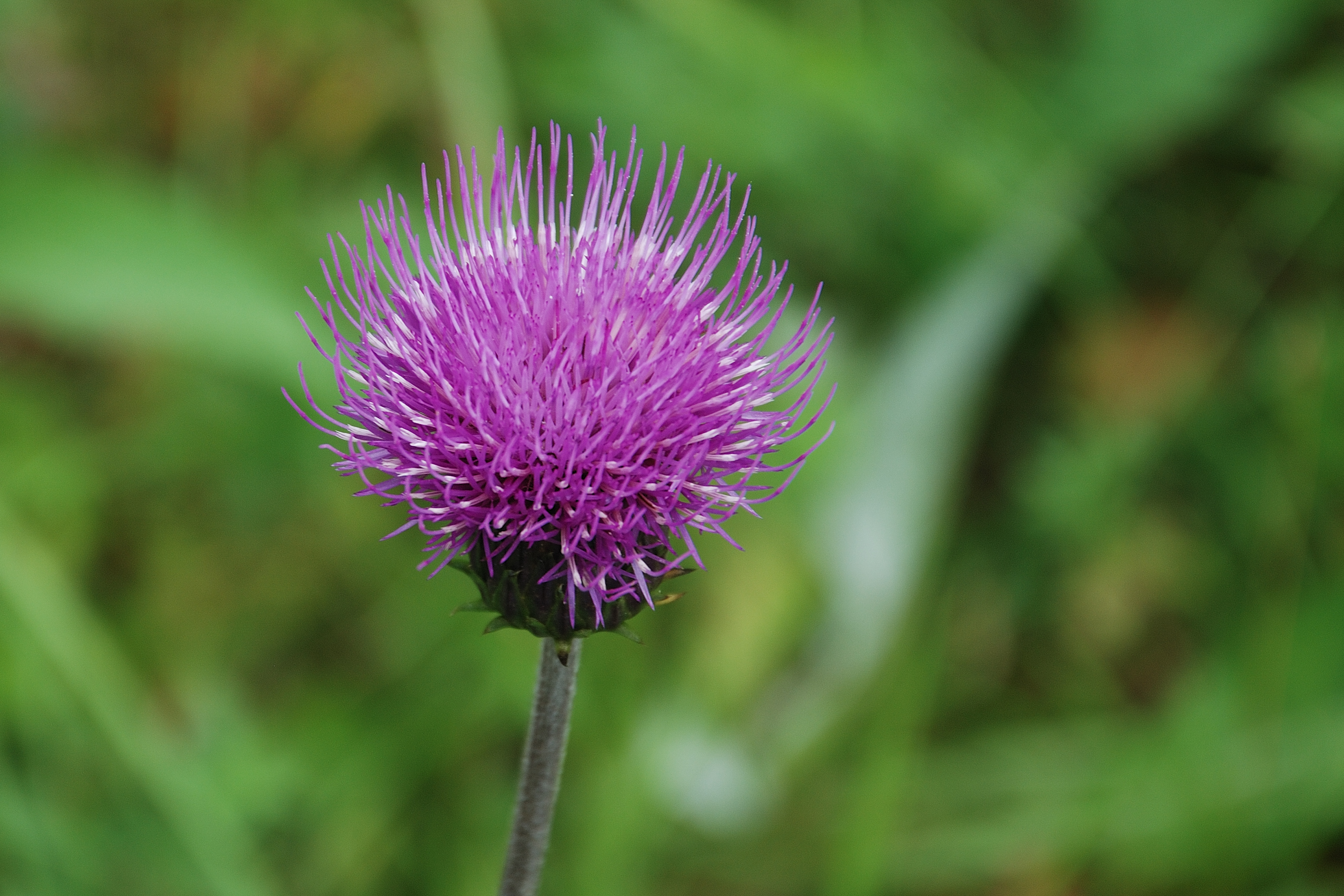 Melancholy Thistle